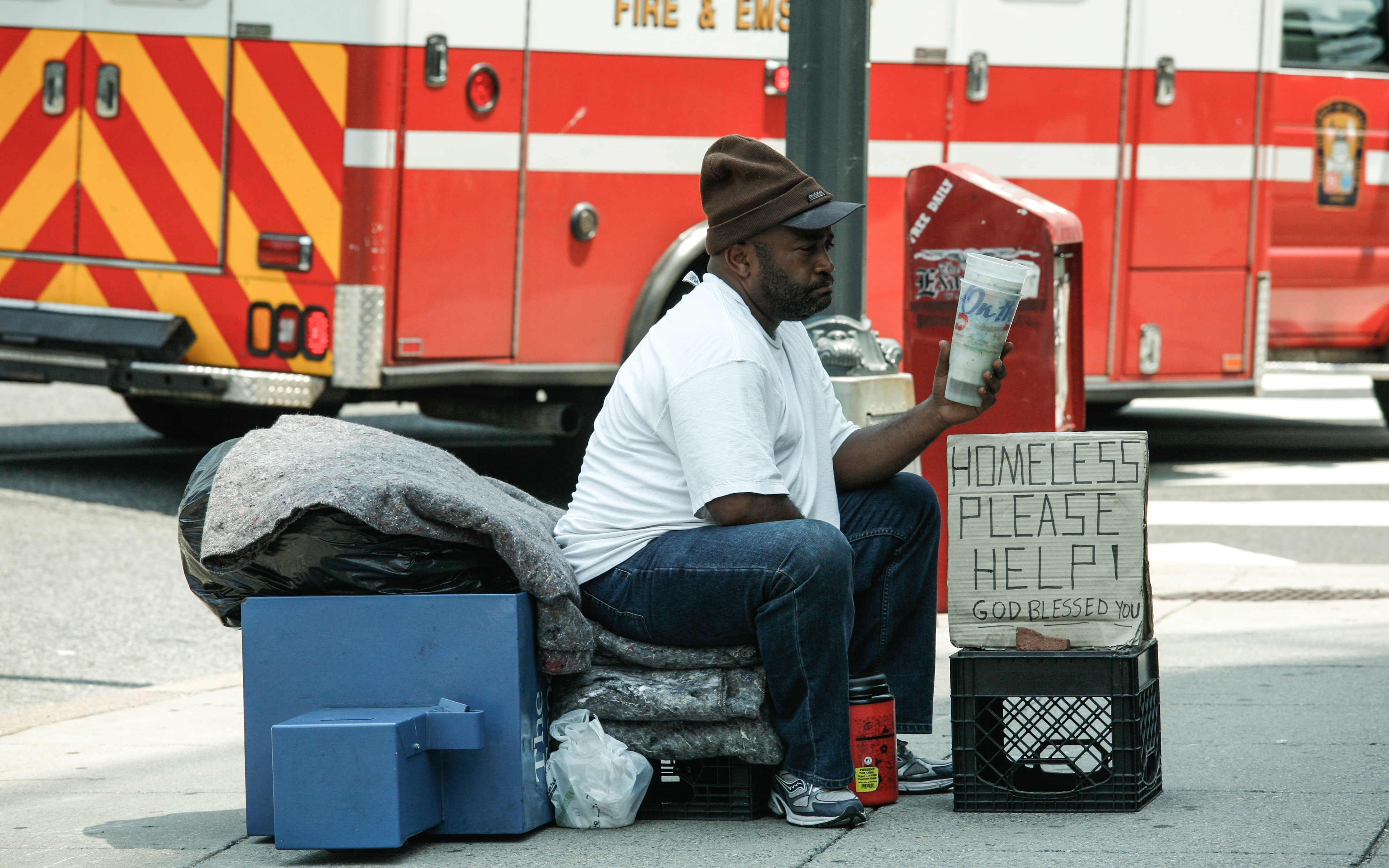 Homeless Please Help